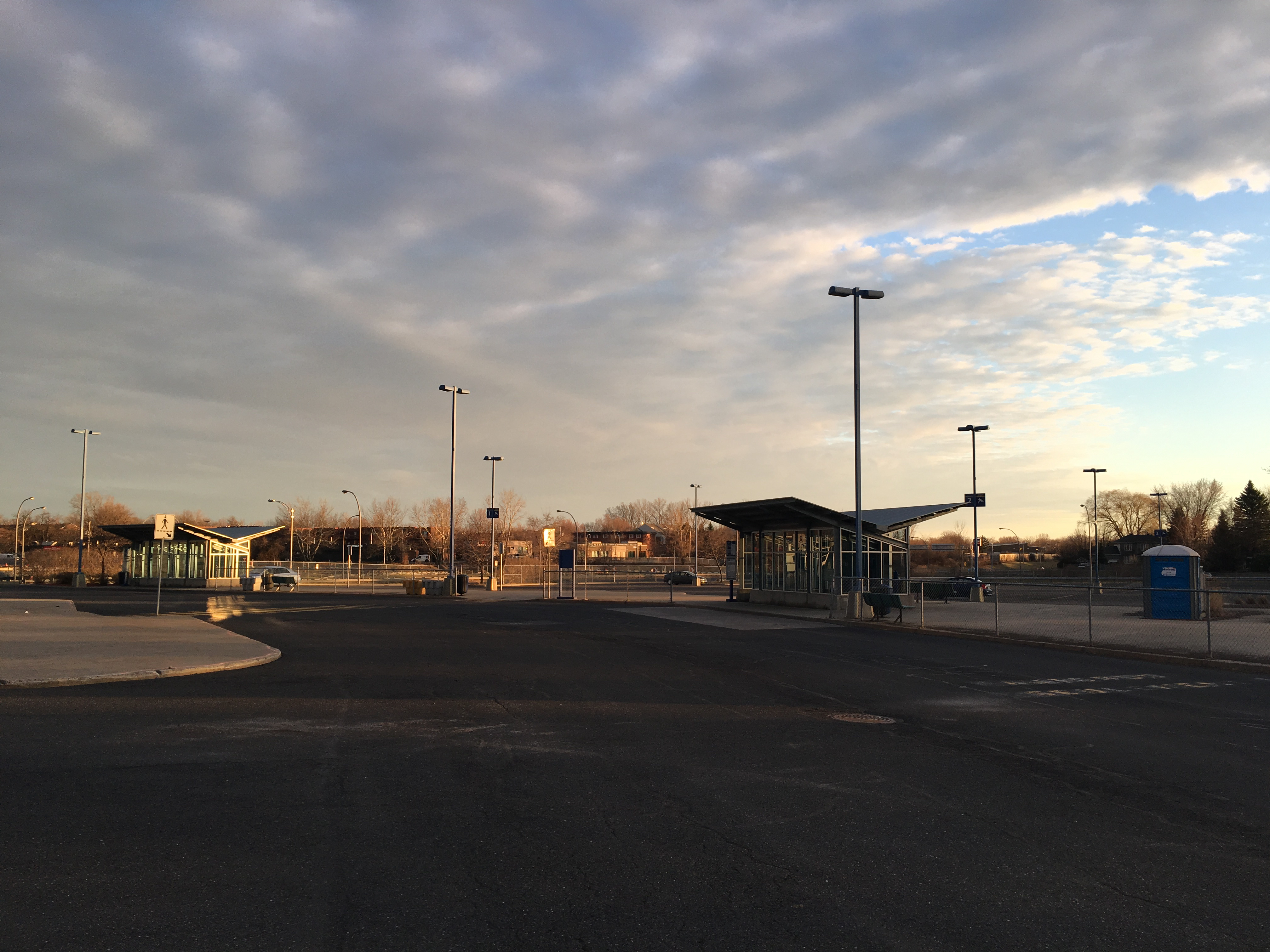 Bus shelters at the de Montarville park and ride.